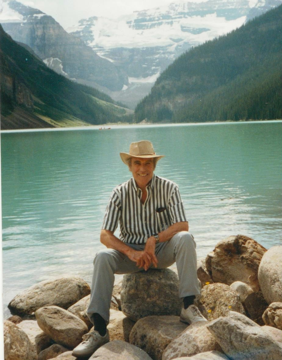 Photograph of William Arbuckle Reid taken in British Columbia in 1989